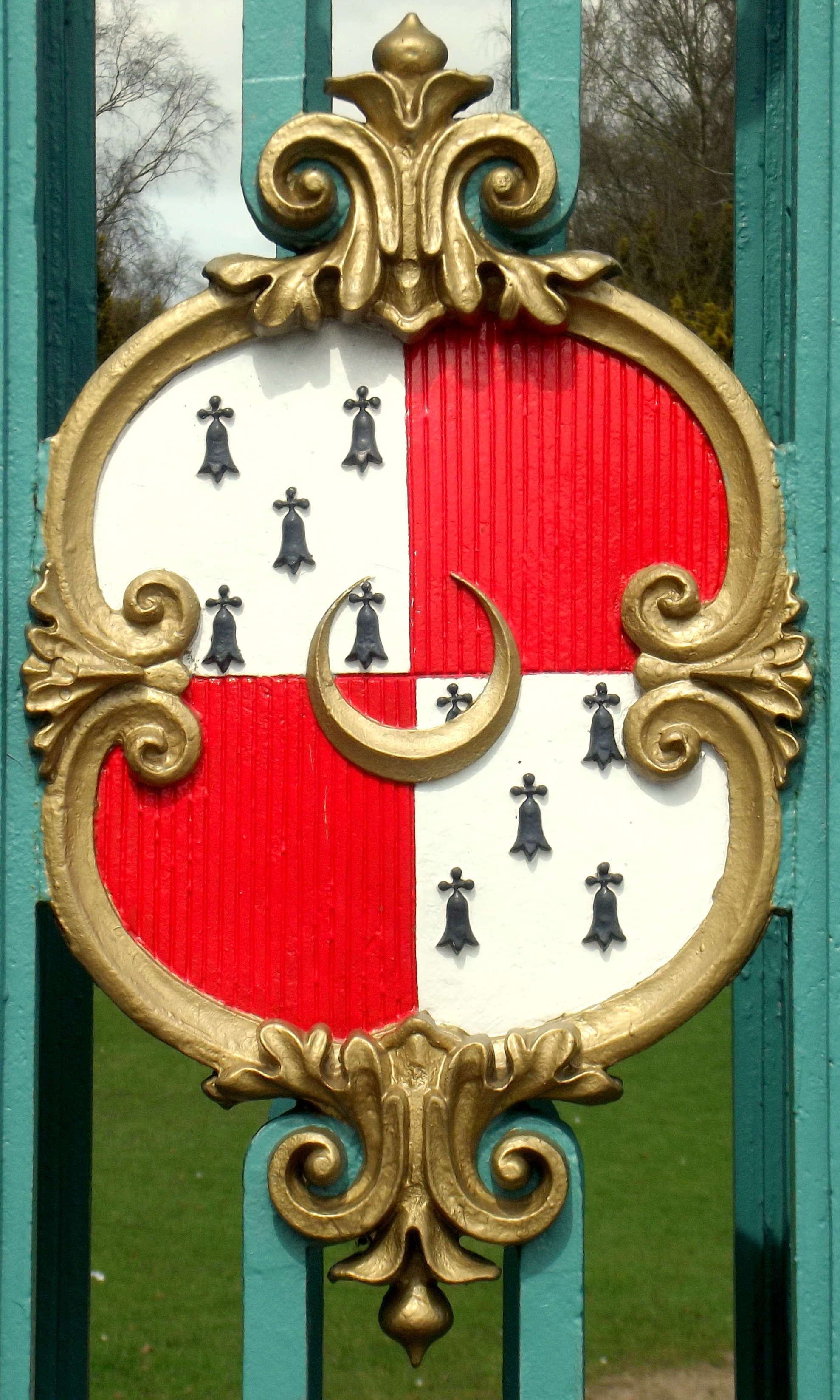 Coat of Arms of the Earls of Harrington, here displayed upon the "Golden Gates" at Elvaston Castle